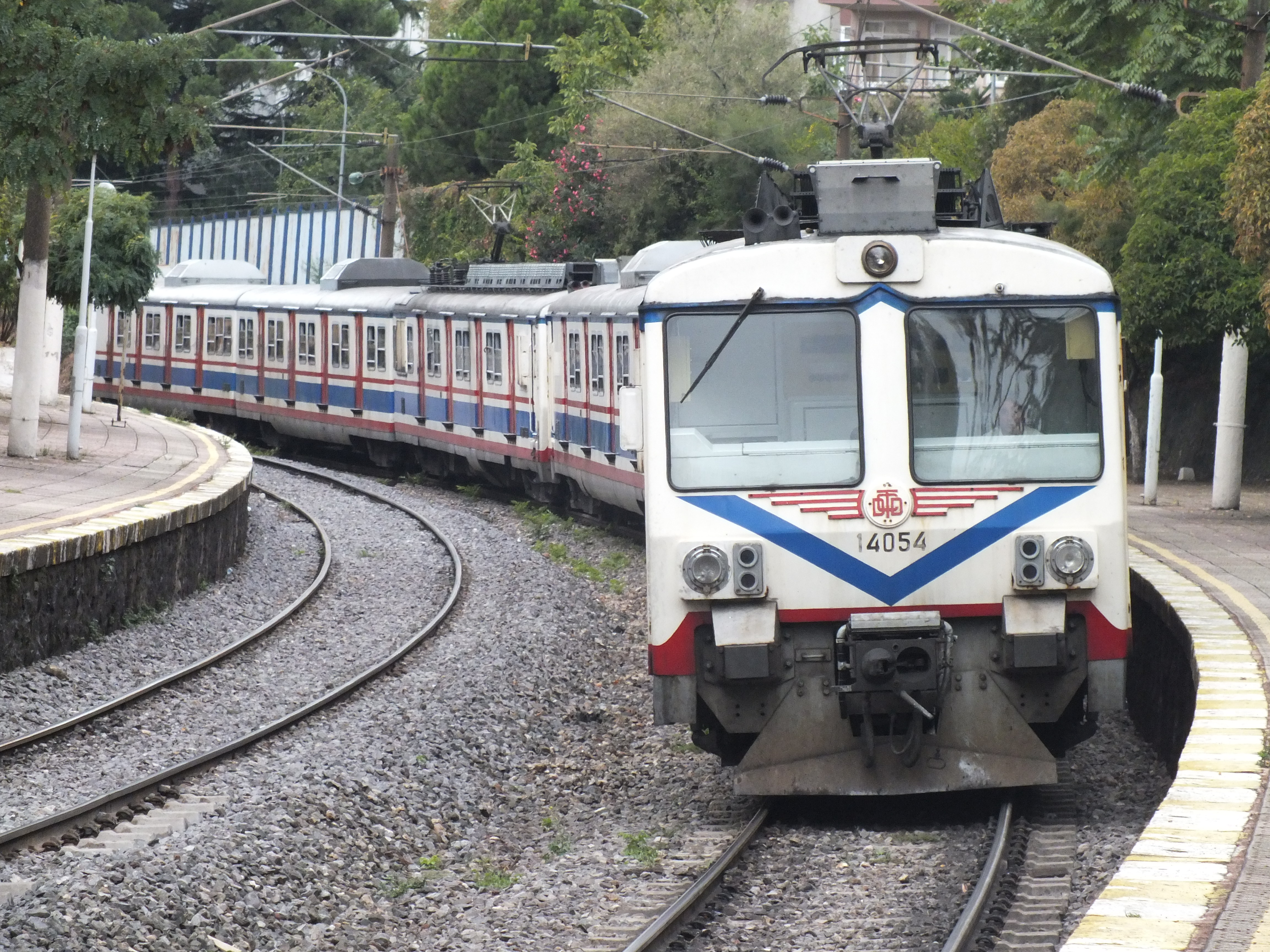 A westbound electric commuter train departing Goztepe station.